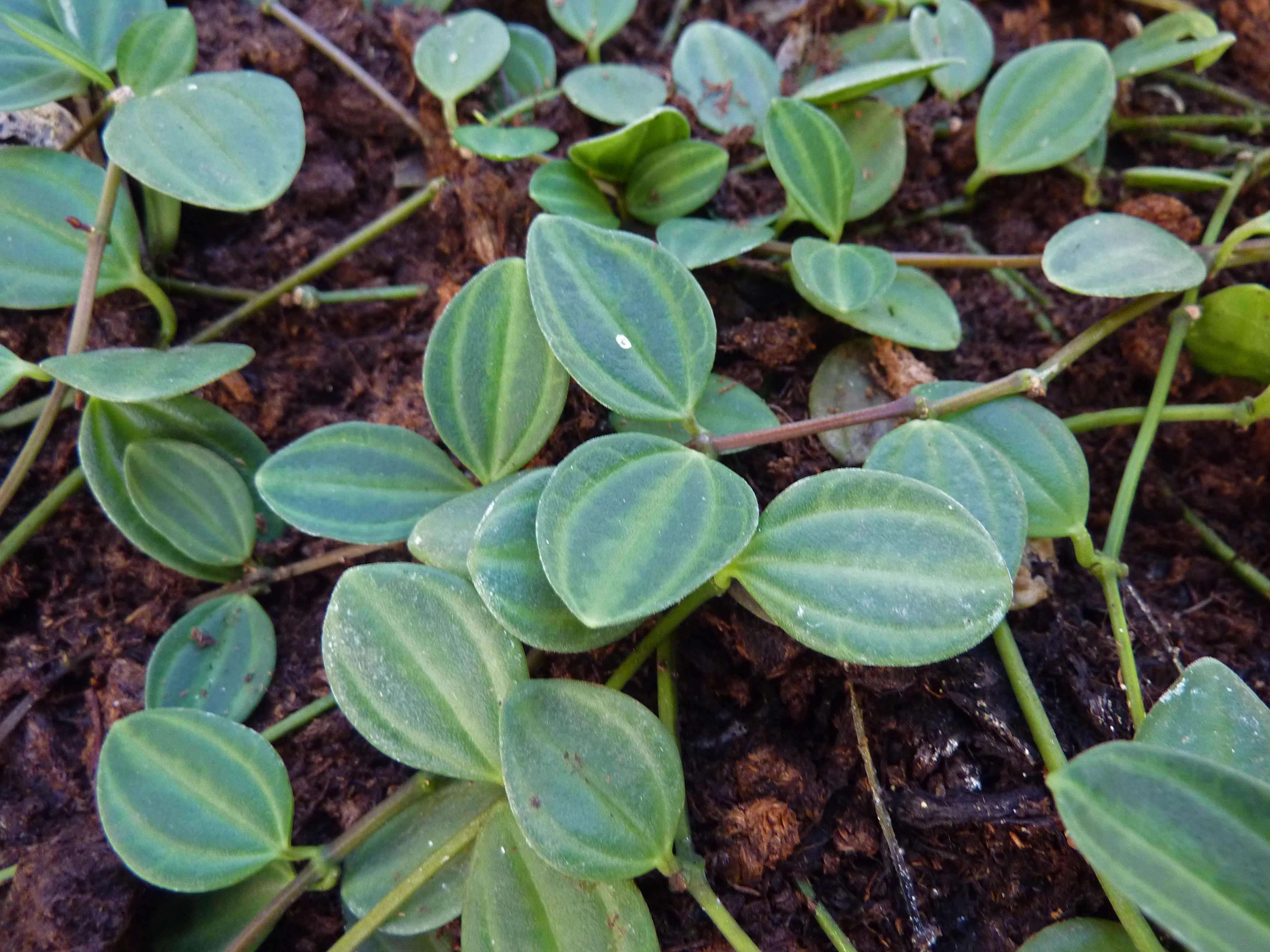 Peperomia quadrangularis in the Botanical Garden, Berlin